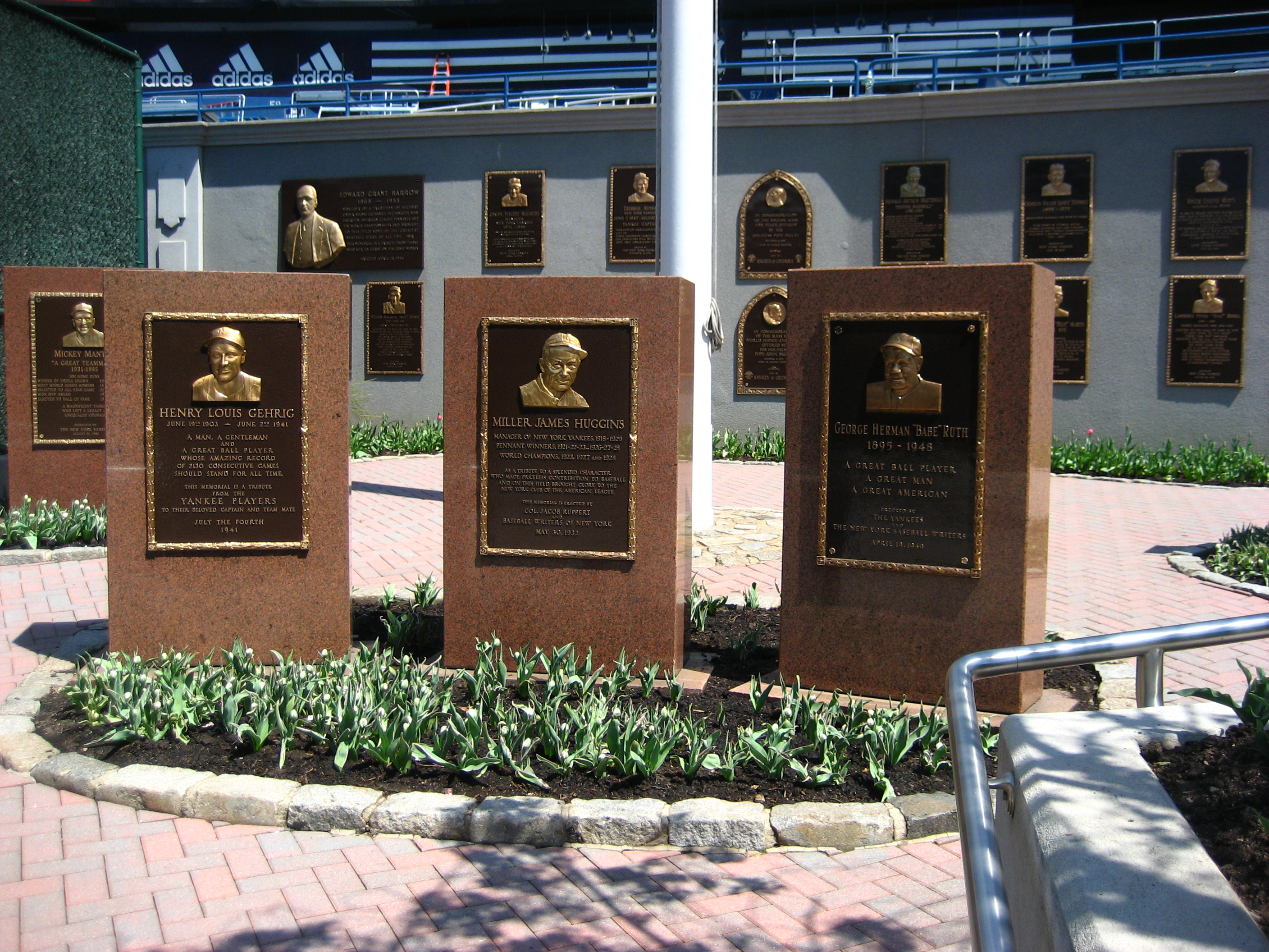 Memorial Park in Yankee Stadium, taken on April 18, 2008, in the final year of the venue's existence